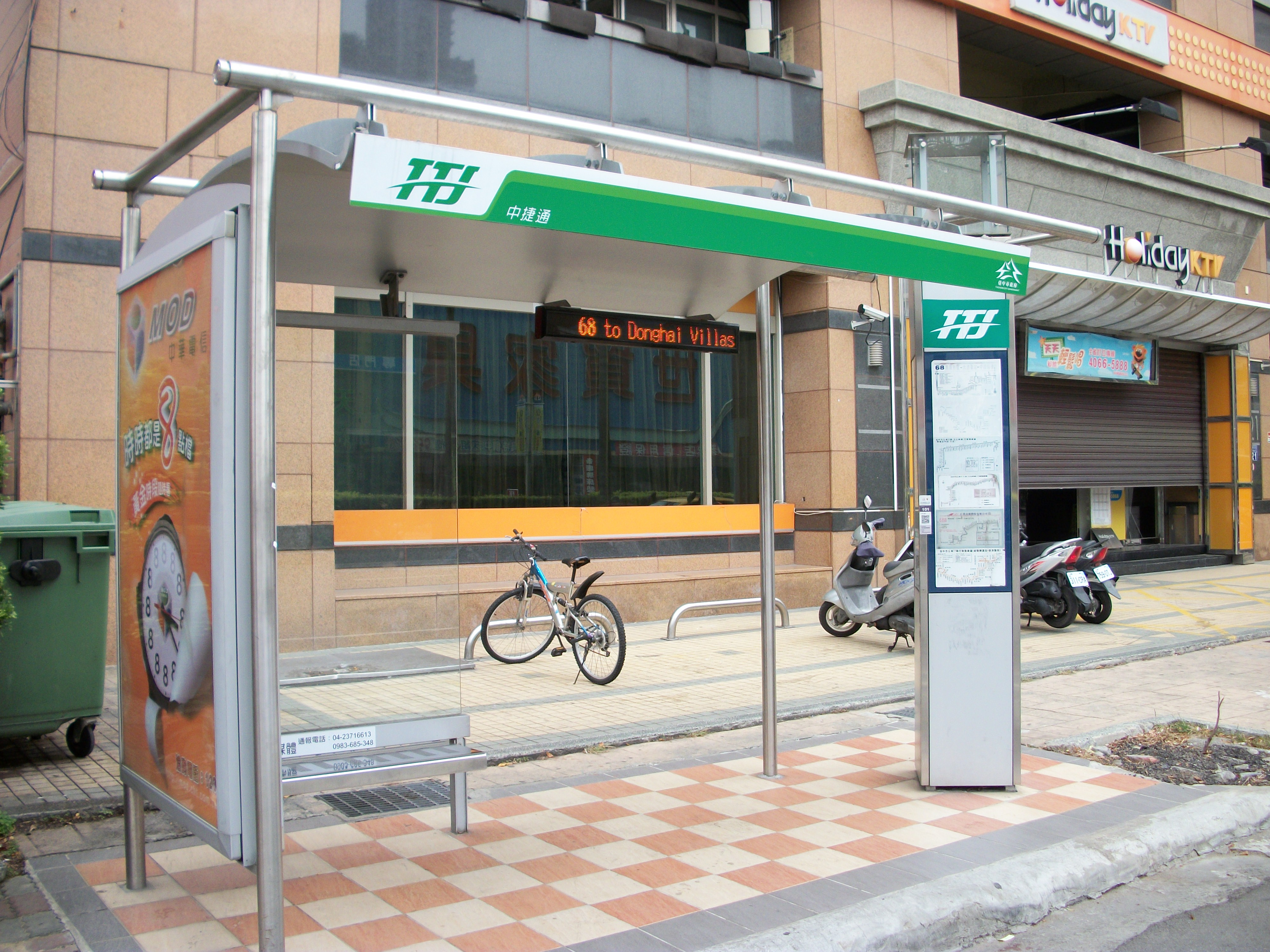 A bus stop (named "Changping Rd. Intersection") in Beitun District, Taichung City.